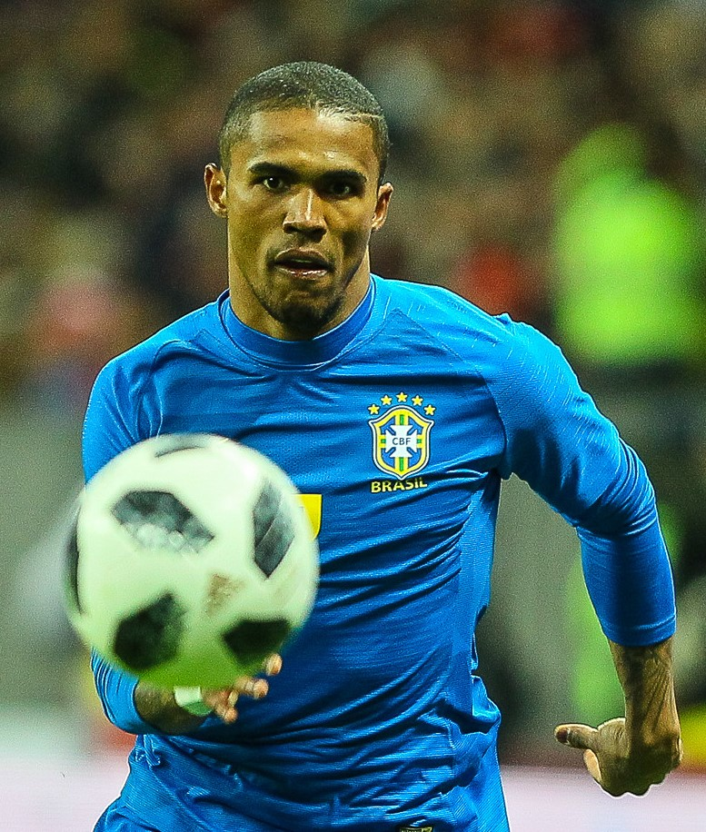 Douglas Costa de Souza